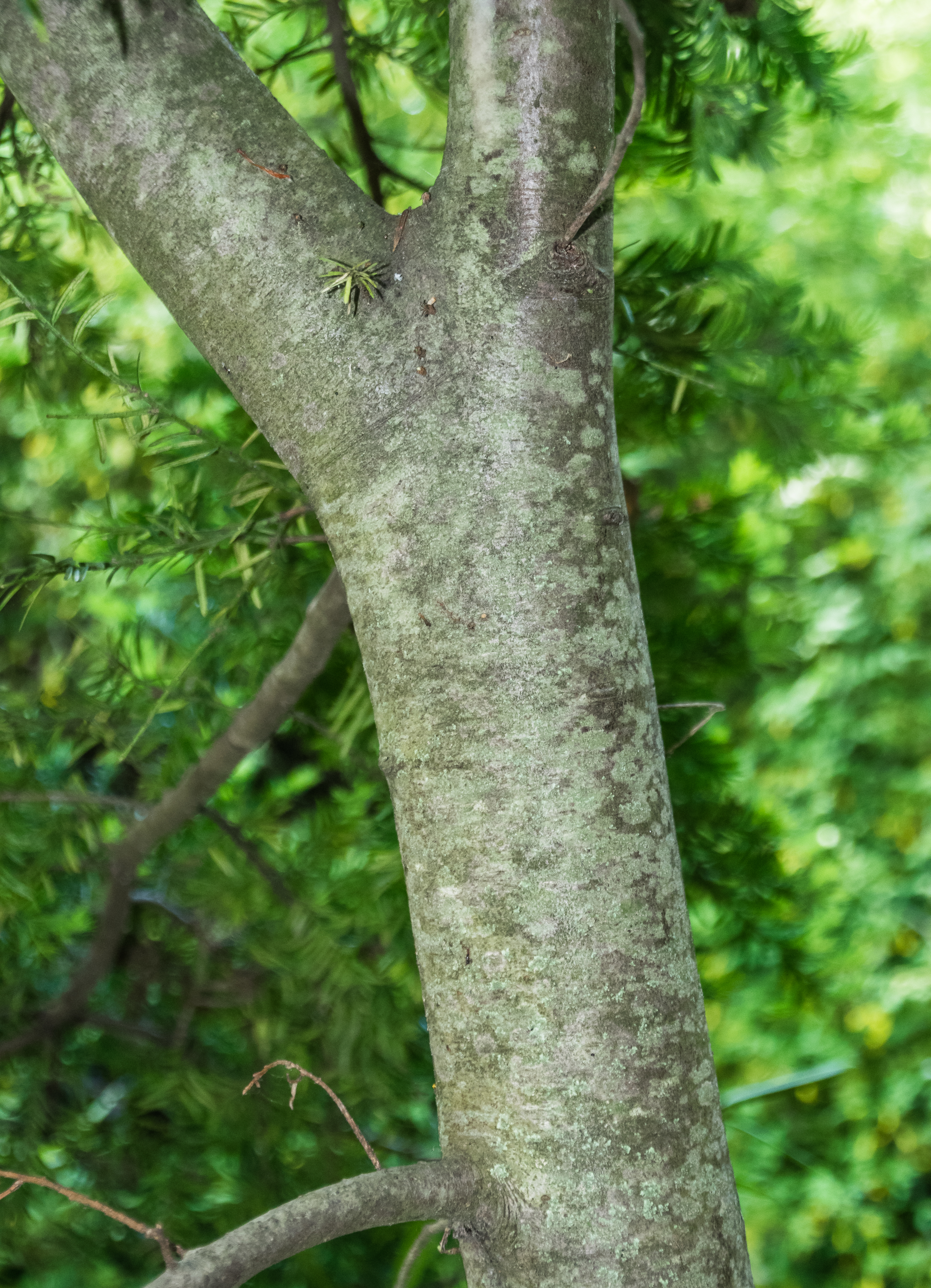 Prumnopitys andina in Christchurch Botanic Gardens in Christchurch, Canterbury Region, New Zealand